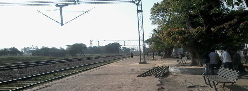 Sundhiyamau Station